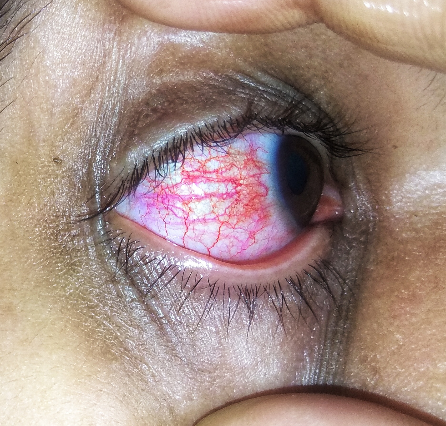 Inflammation or infection of the outer membrane of the eyeball and the inner eyelid.